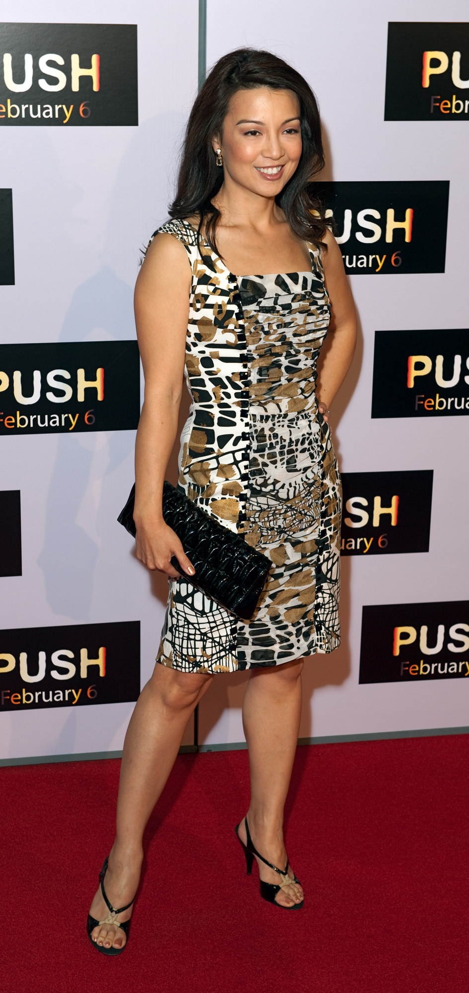 American actress Ming-Na arrives at the premiere of Push, Mann Theater, Westwood.